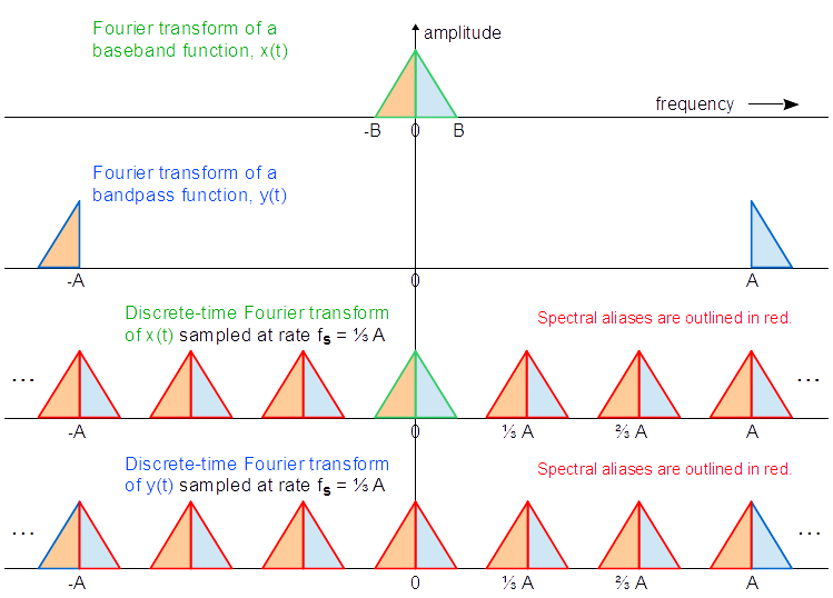 The top 2 graphs depict Fourier transforms of 2 different functions that produce the same results when sampled at a particular rate. The baseband function is sampled faster than its Nyquist rate, and the bandpass function is undersampled, effectively converting it to baseband. The lower graphs indicate how identical spectral results are created by the aliases of the sampling process.